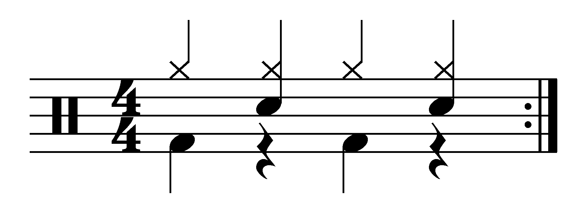 Two-step drum pattern associated with the older NON-Texas two-step dance pattern.